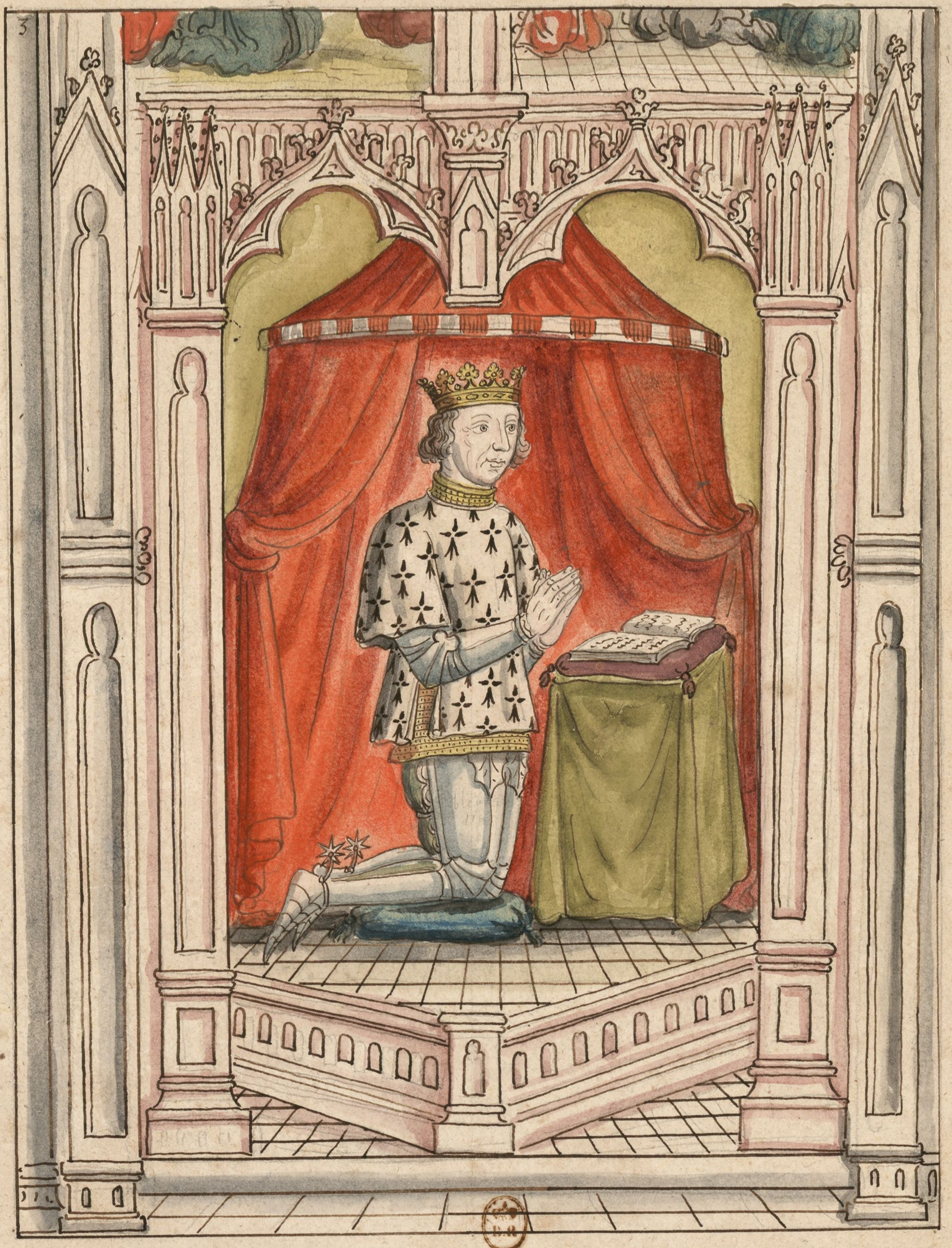 Stained glass window of Cordeliers de Nantes : Francis II, Duke of Brittany praying